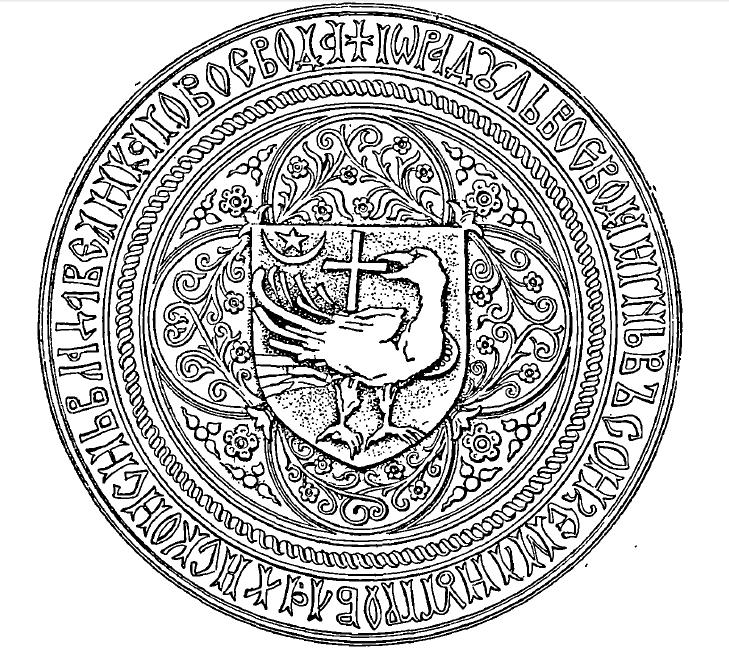 Seals of Radu IV the Great 1499. Legend: ІѠ РАДꙊЛЬ ВОЕВОДА И ГНЬ ВЪСОИ ꙀЄМЬЛИ ꙊГРОВЛАХИСКОИ СИЬ ВЛАДАВЄЛ И КАГО ВОЕВОДА ("Radul is the voivode and lord of the whole land of Ugrovlakhia, this ruler and his voivode")